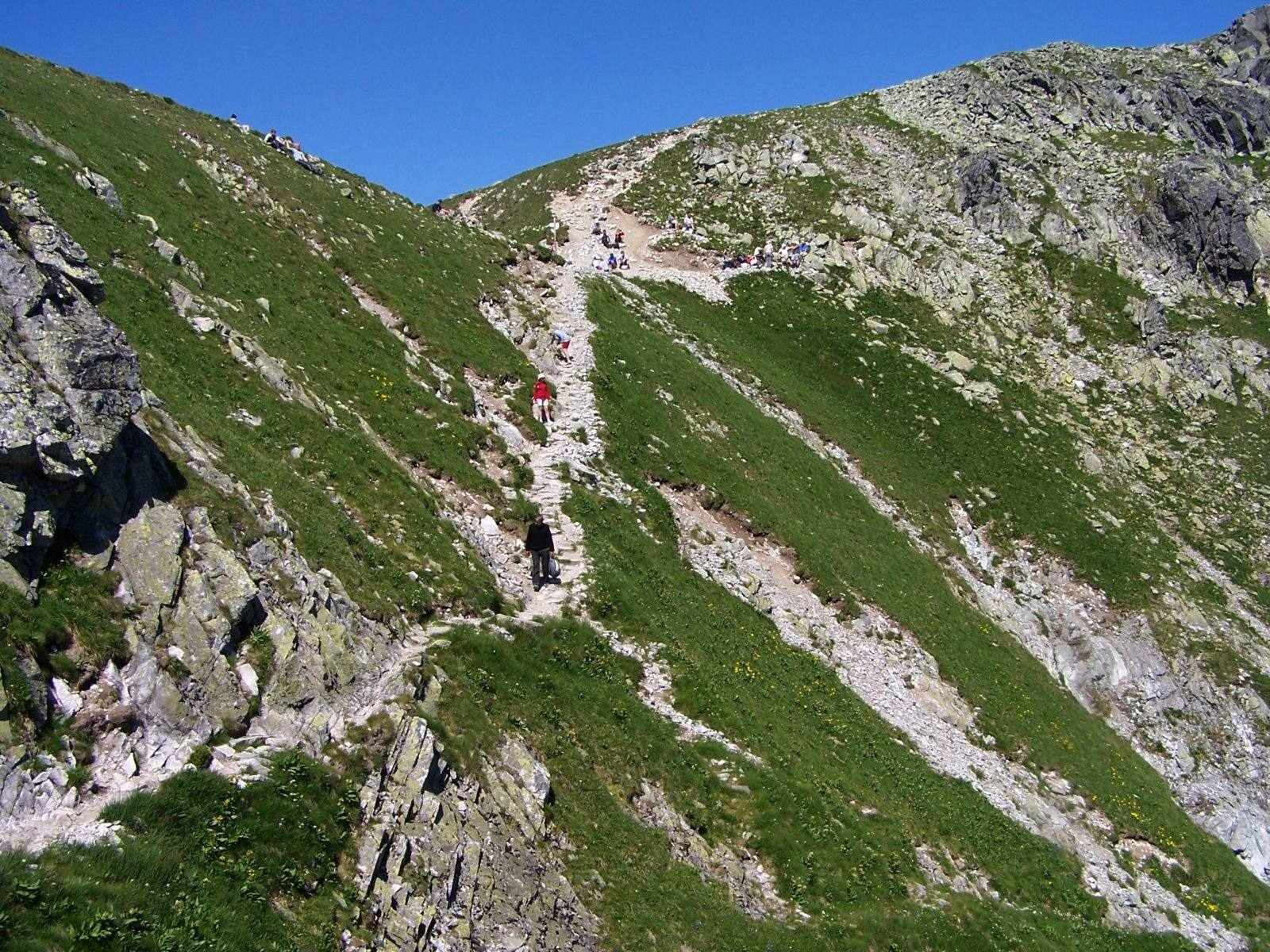 Krzyżne (Tatra Mountains)